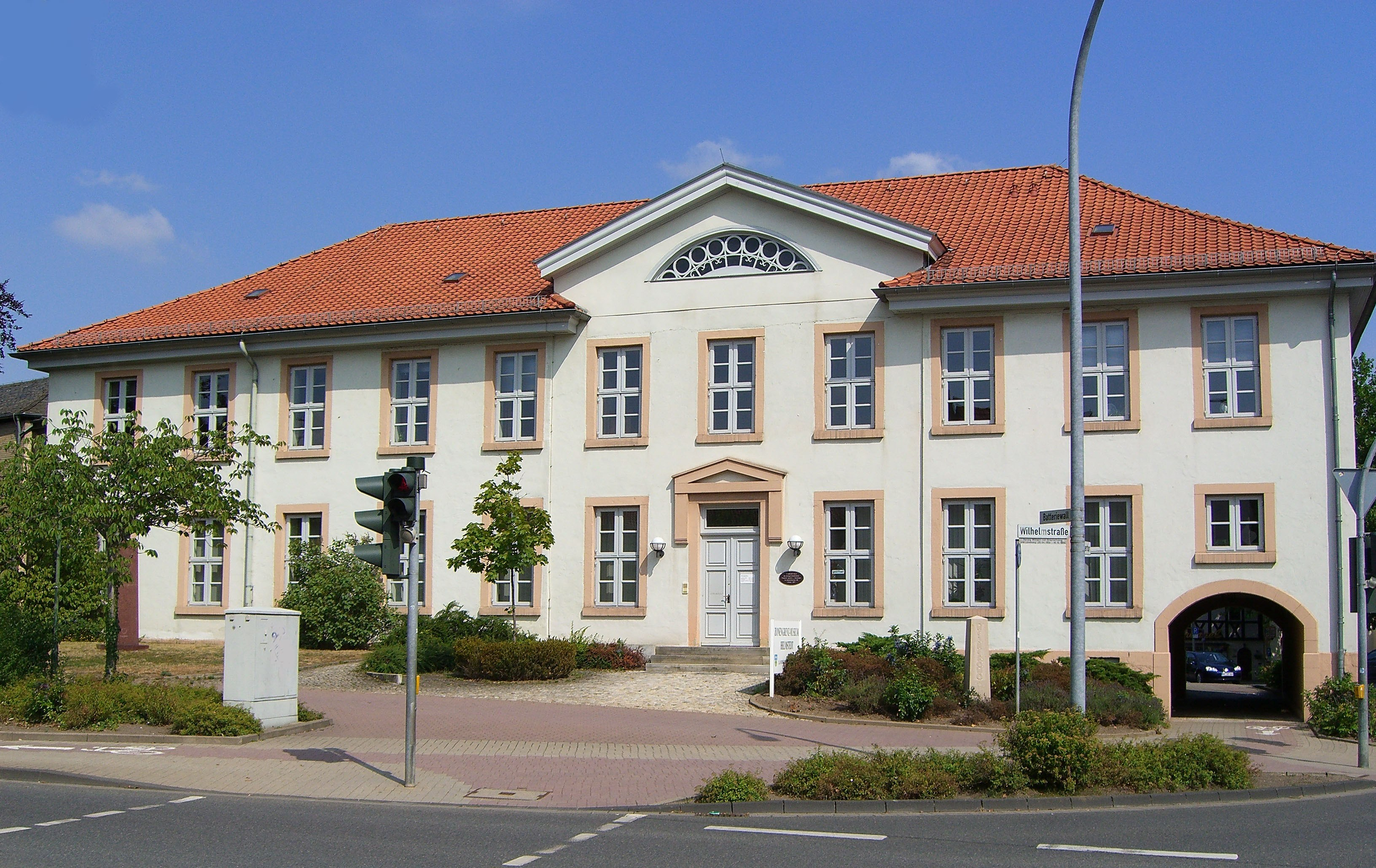 border museum in Helmstedt